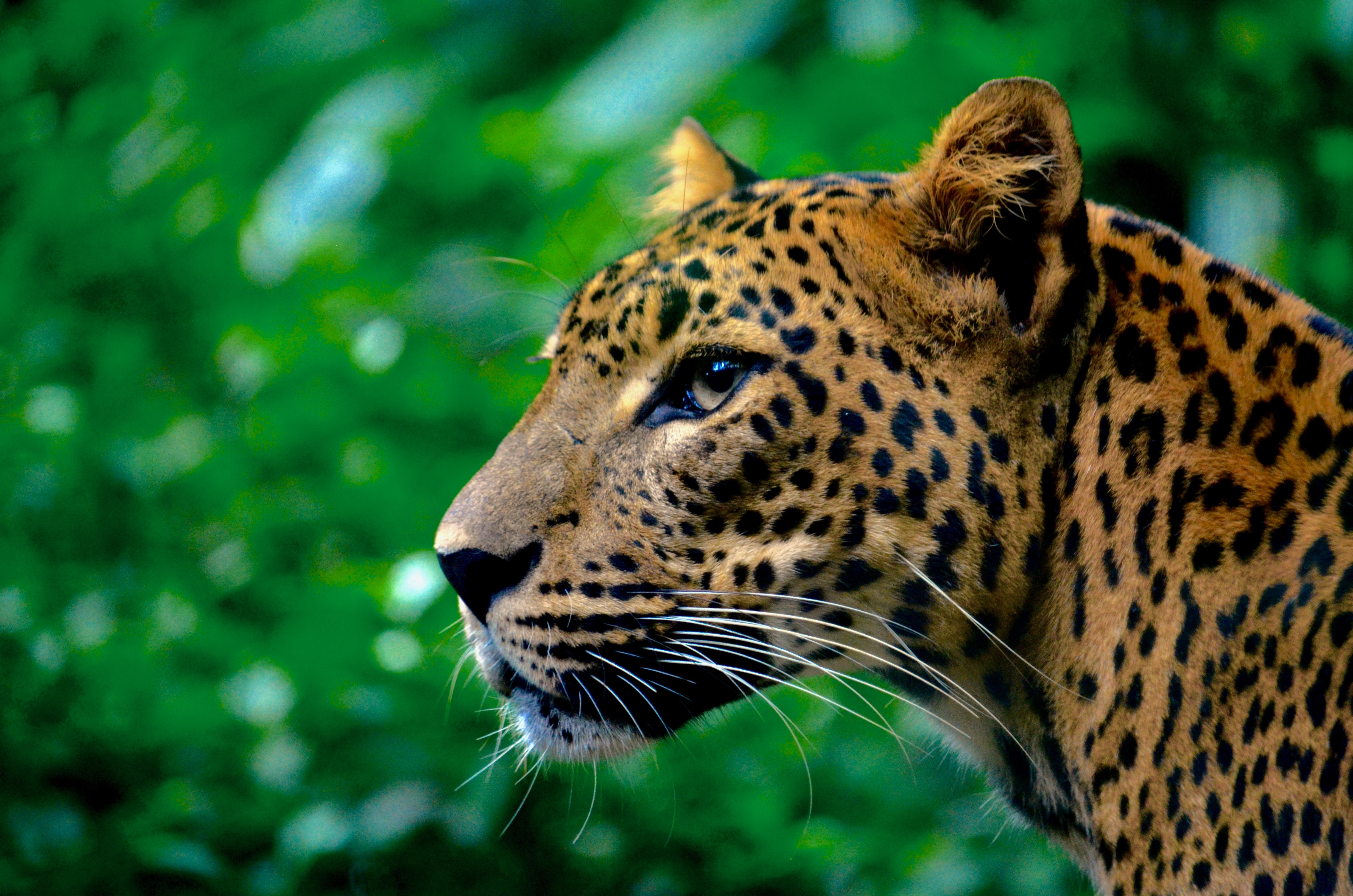 A jaguar looking into the distance.